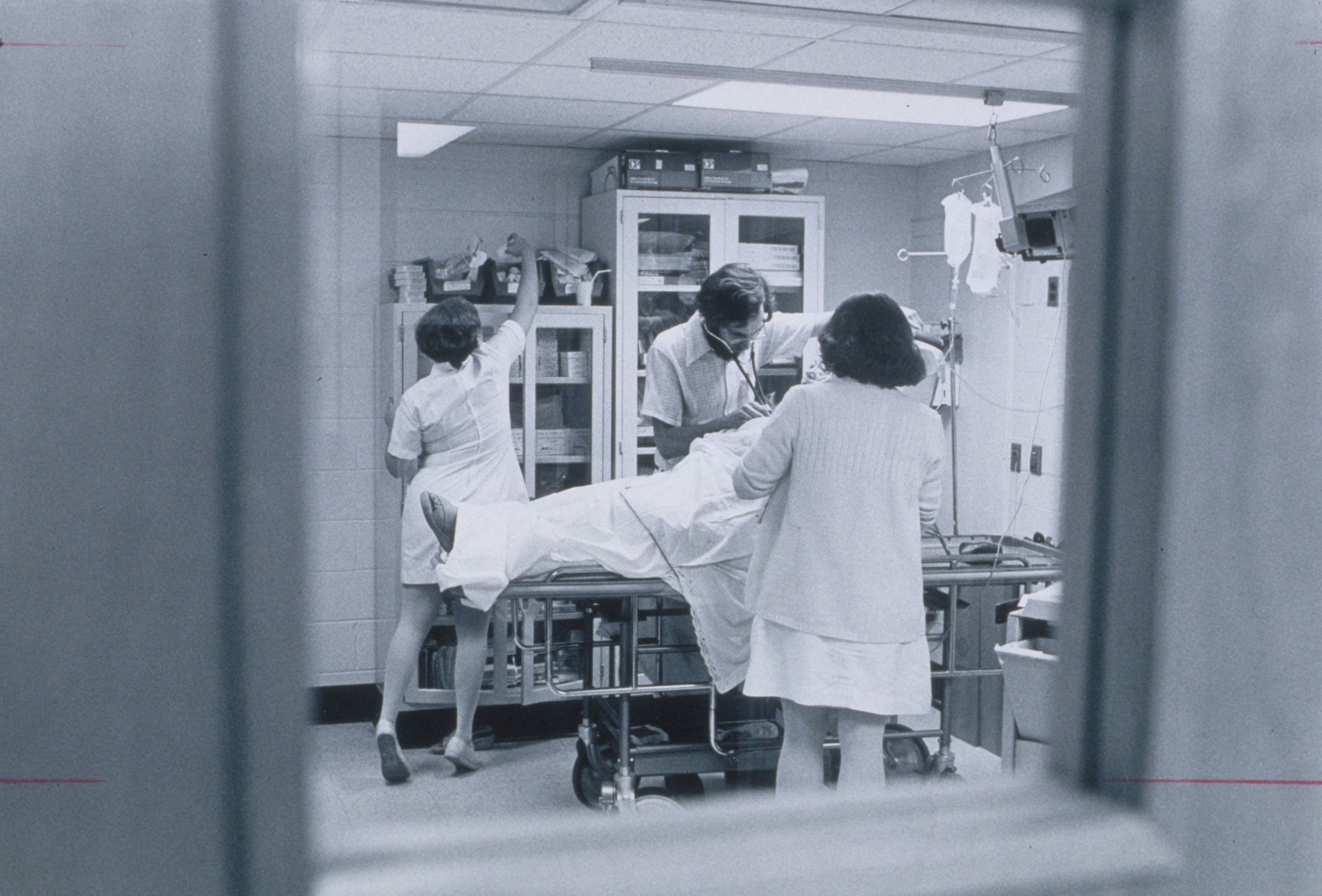 From "Historic VCU: A VCU Images Special Collection" VCU Libraries, Tompkins-McCaw Library, Special Collections & Archives h0038